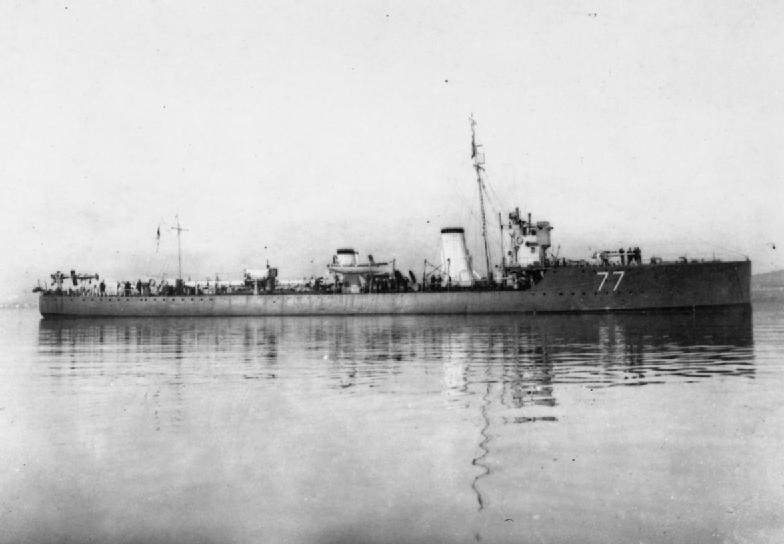 Photograph of British Acheron class destroyer HMS Forester.